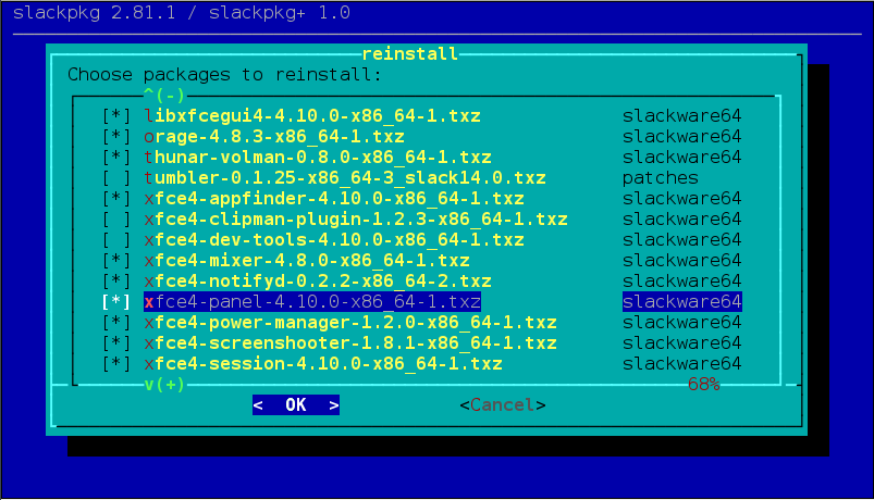 Slackware's slackpkg tool, screenshot